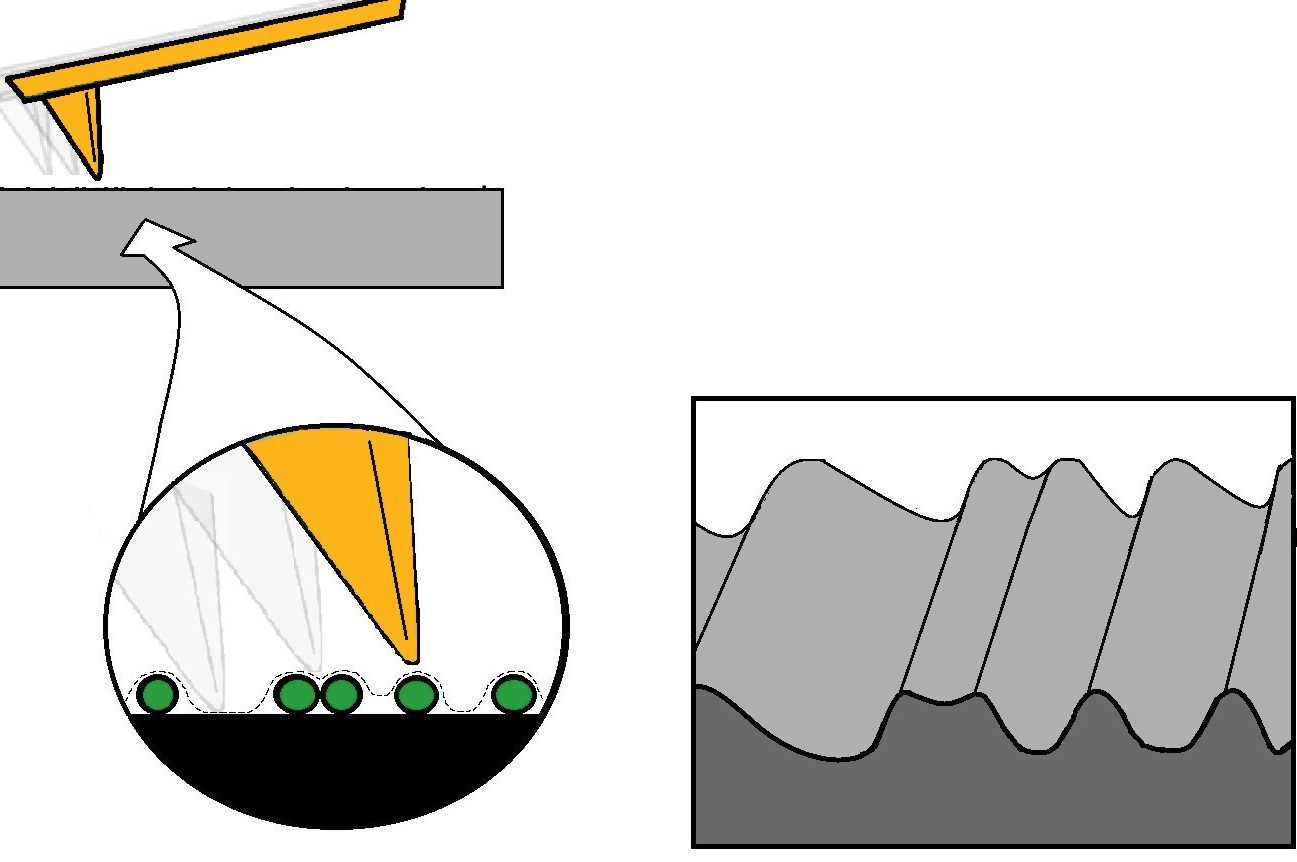 Decreases resolution caused by rounding of the AFM tip.